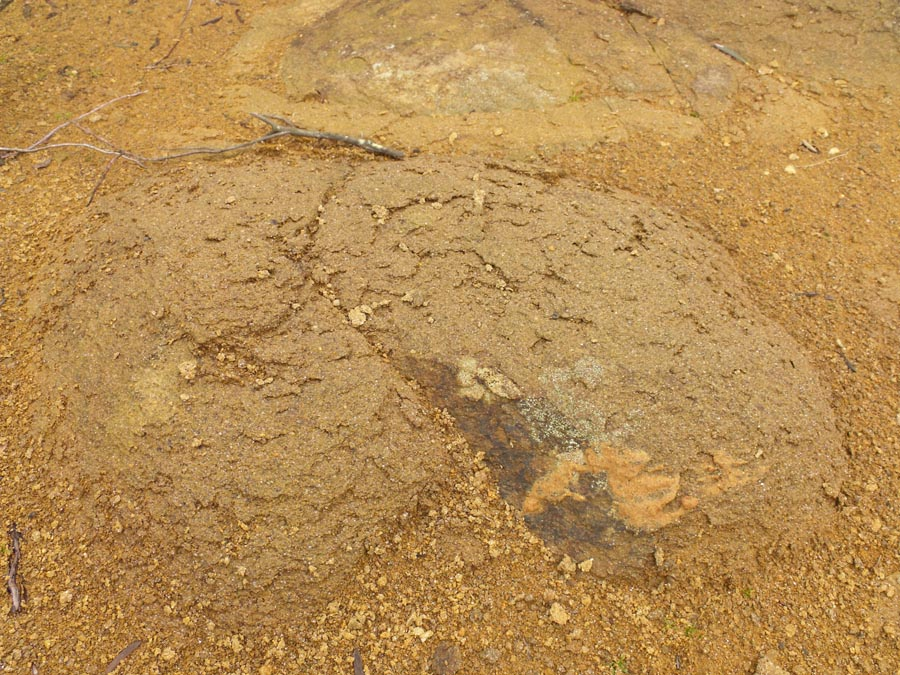 Exfoliaton joints on sandstone. Magliano in Toscana, Tuscany, Italy